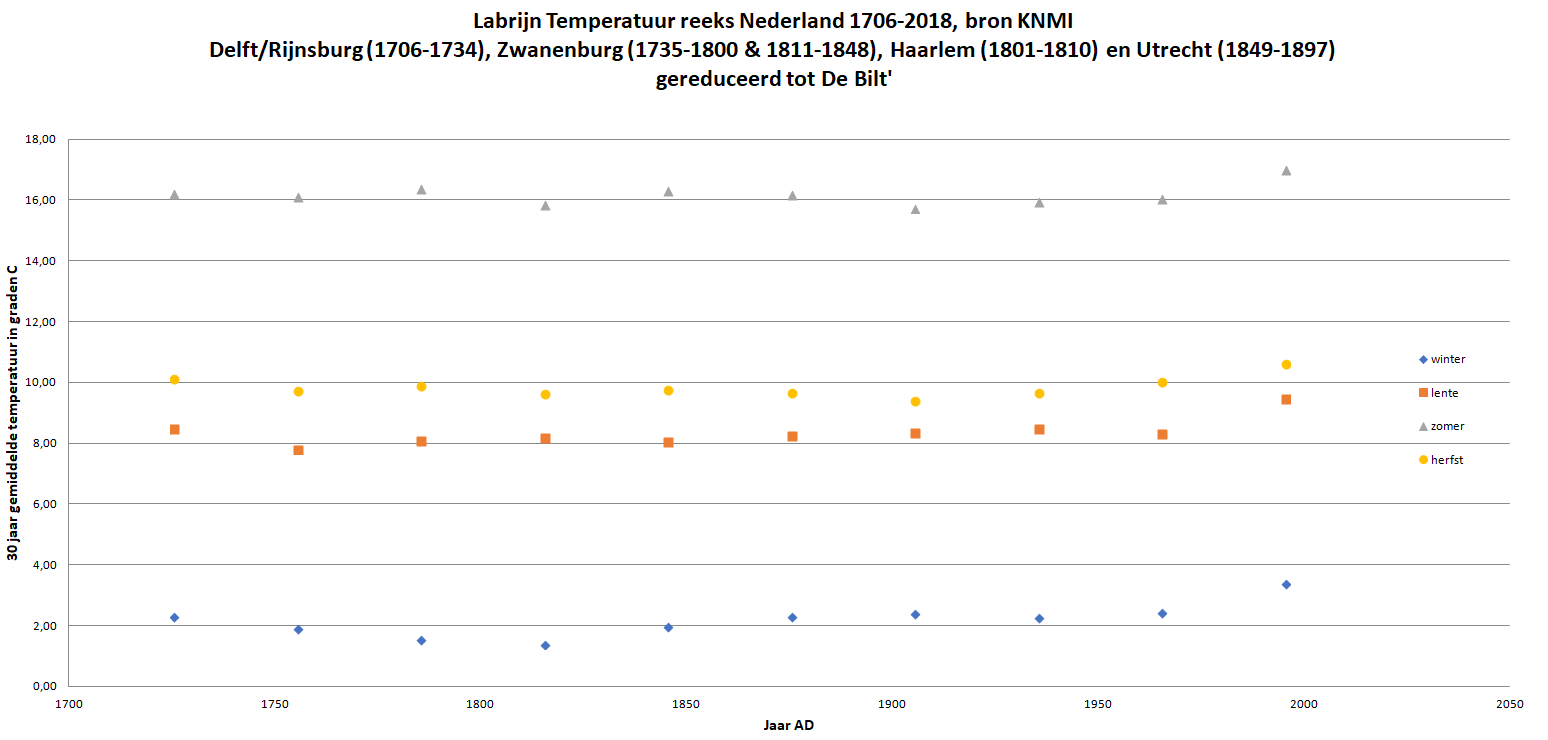 Graph made of 30 year average of temperature data [Celsius] of surface air temperature at De Bilt based on Delft/Rijnsburg (1706-1734), Zwanenburg (1735-1800 & 1811-1848), Haarlem (1801-1810) and Utrecht (1849-1897) reduced to De Bilt otherwise known as the Labrijn series